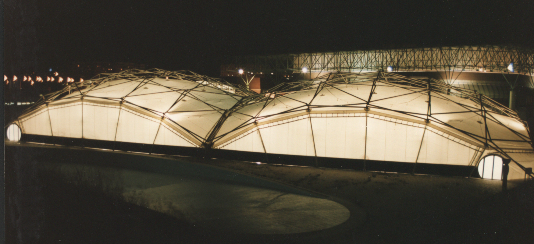 Deployable cover on a swimming pool in San Pablo